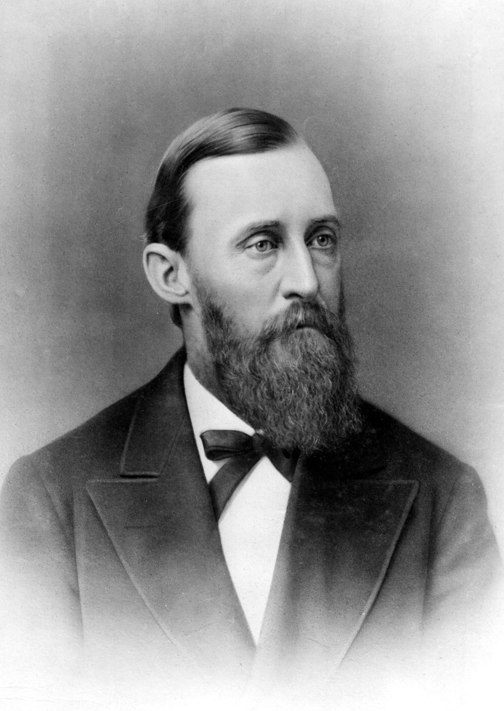 Ferdinand V. Hayden at the time of his 4th Geological Survey of the Territories, 1870